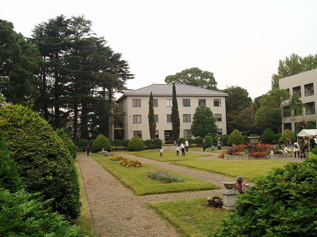 The French Garden in Matsudo Campus, Chiba University.